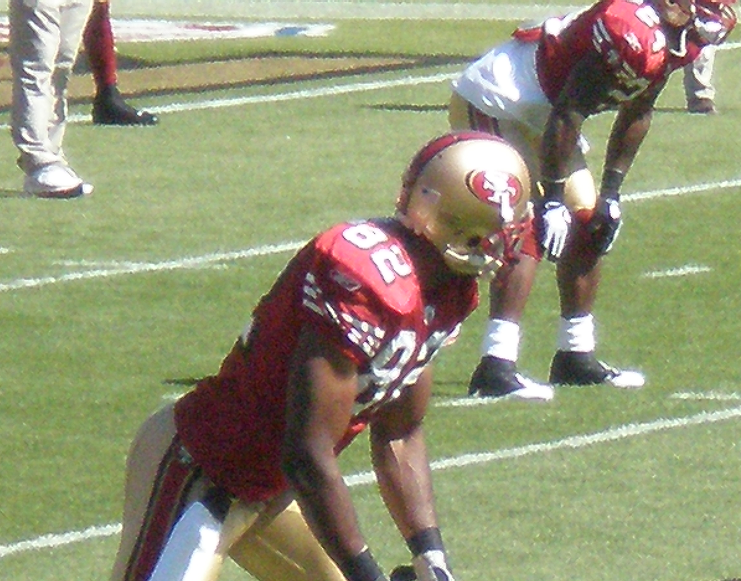 San Francisco 49ers wide receiver Bryant Johnson warming up on Bill Walsh Field at Candlestick Park prior to a regular season game against the Philadelphia Eagles. The Eagles won 40-26.